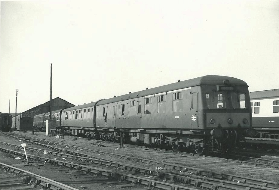 The BR (Swindon) Cross Country dmu's (later Class 120) were designed as 3-car sets so this is an unusual formation in that it is formed of a 4-car set with two cars in green and two cars in blue livery! The photo shows Sc51788 (120/1 in rail blue with small yellow front end) & Sc51790 (120/2 also rail blue) from a 3-car set with the centre car removed and Sc59679 (179 in green) & Sc51783 (120/1 in green) from a set with one end driving car removed. A curious formation. At Inverness MPD, 08/68. Scanned photograph taken with a Kowa SET.